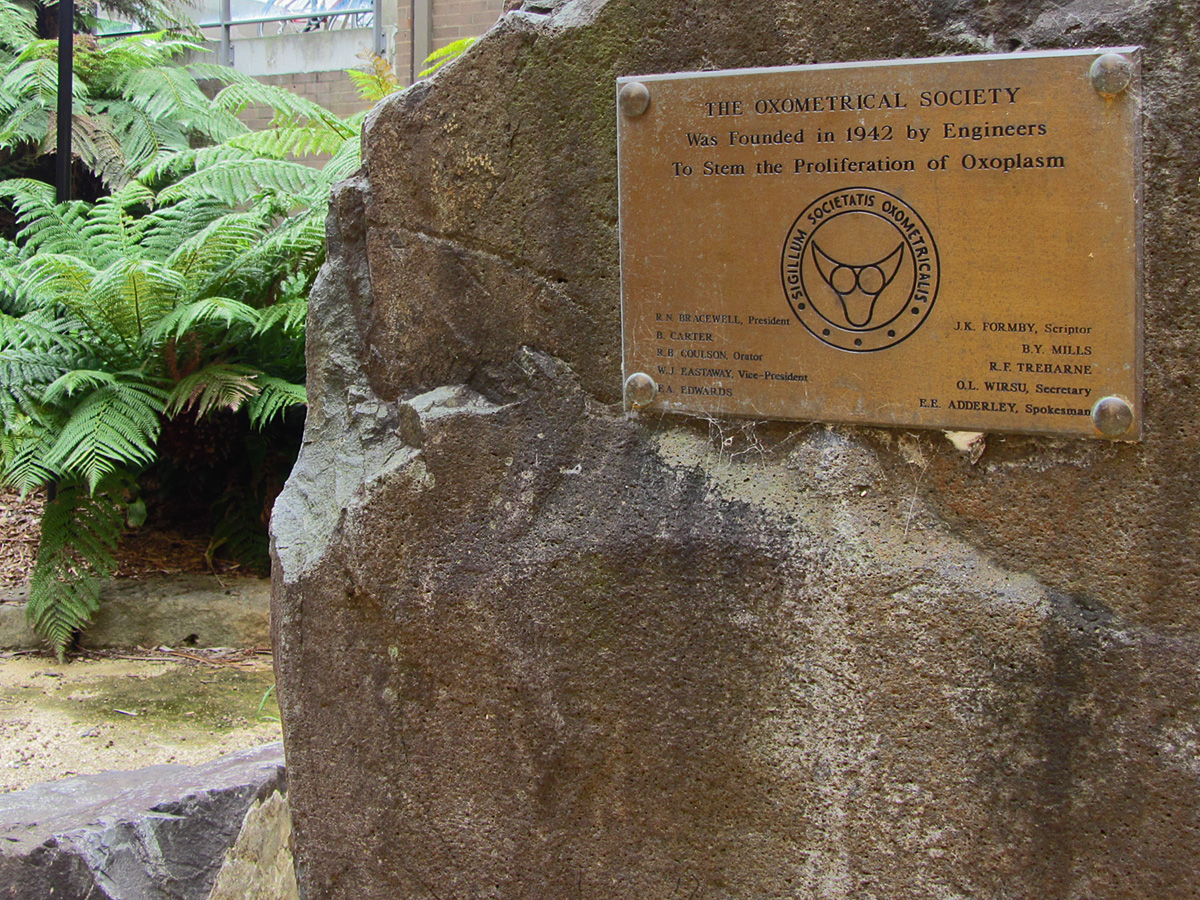 A plaque in the grounds of Sydney University in recognition of the Oxometrical Society